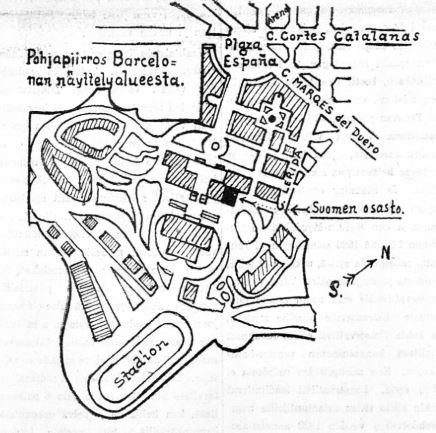 Map of Barcelona world fair in Finnish